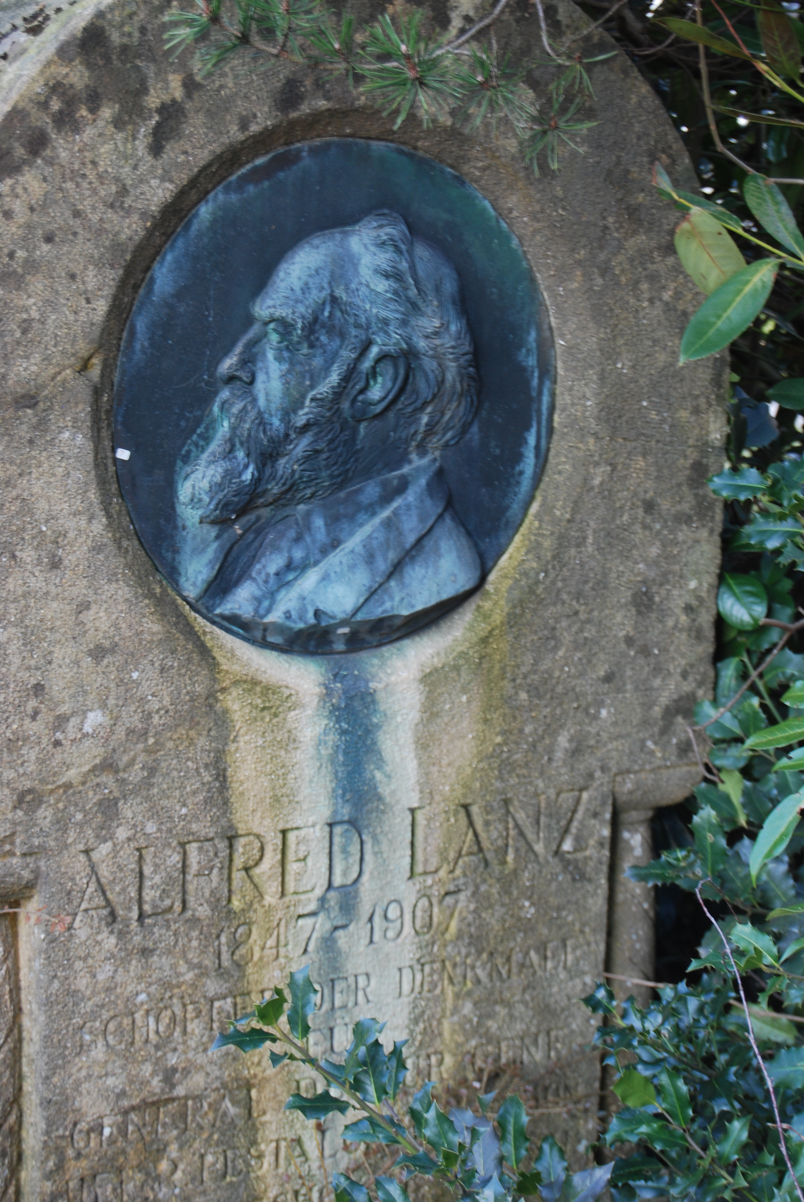 Memorial of Alfred Lanz at Rohrbach, canton of Bern, Switzerland